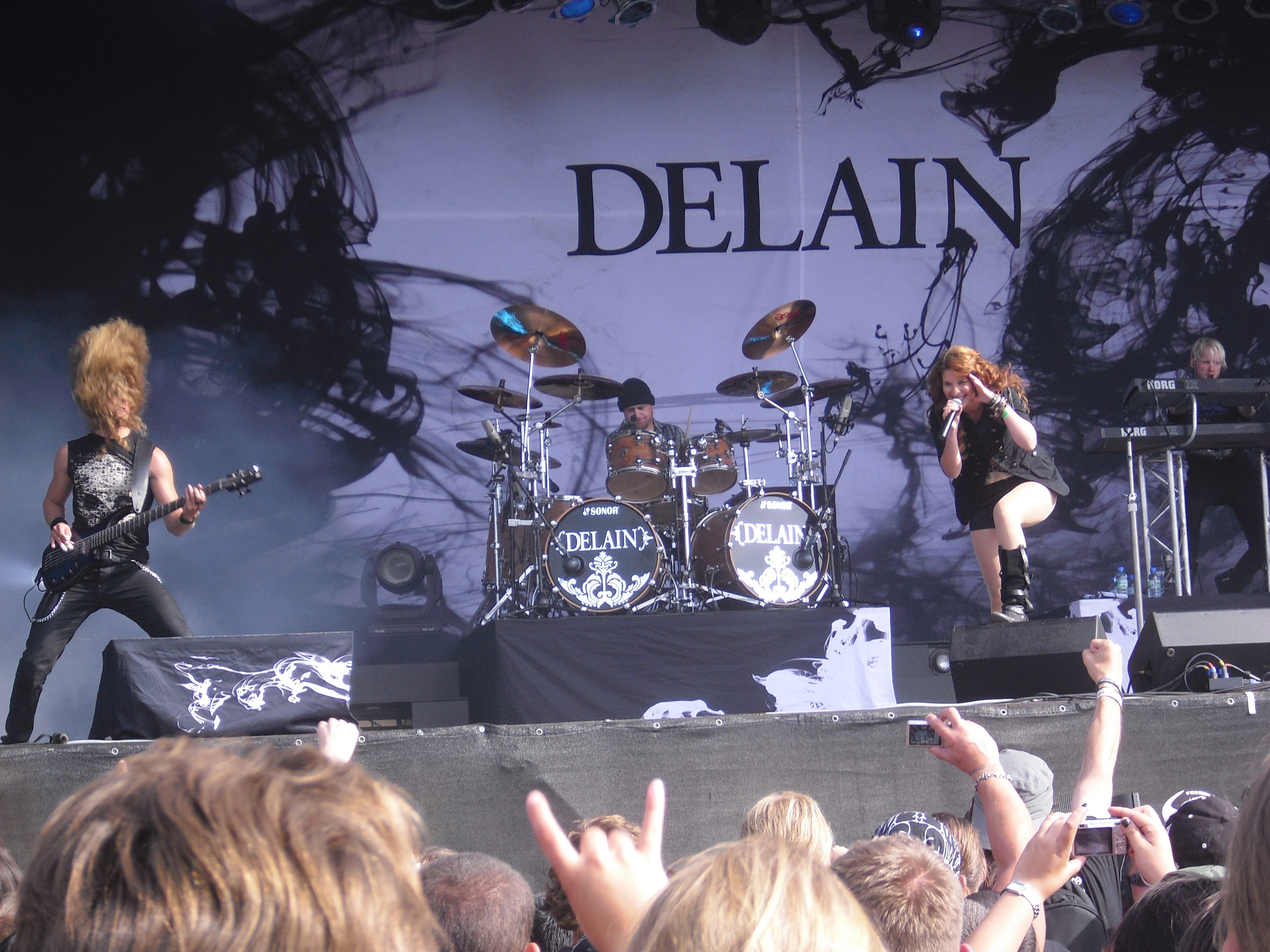 Delain performing live at Wacken Open Air in August 2010